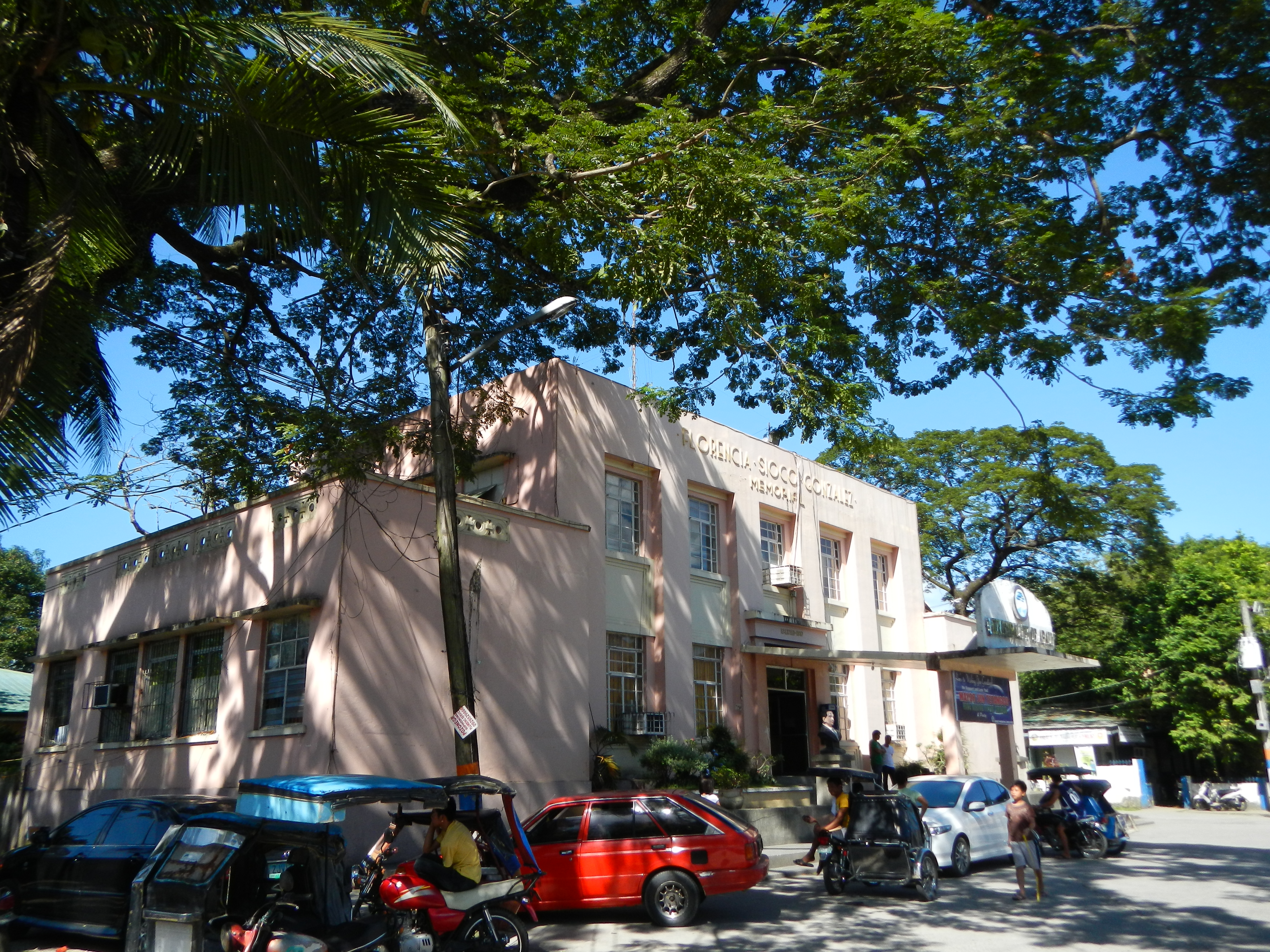 Apalit, Pampanga[1]